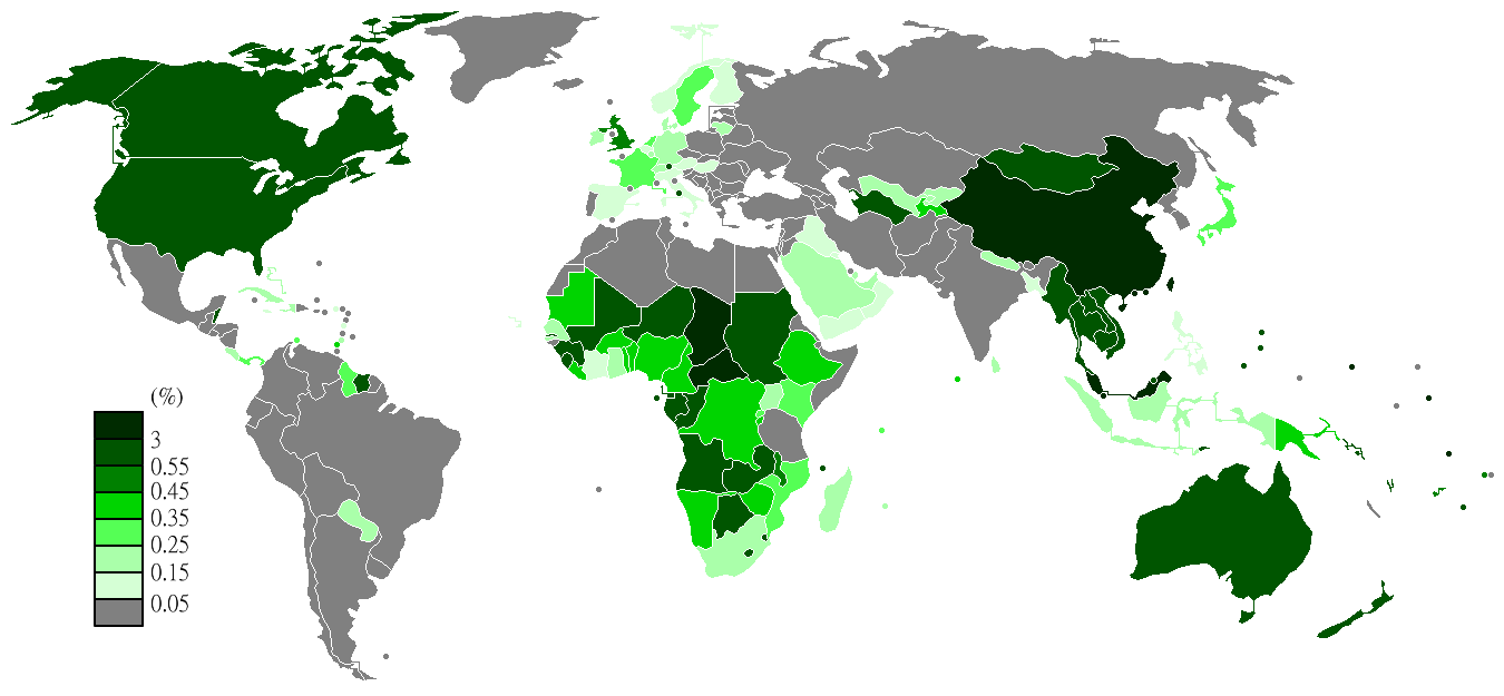 Chinese Wikipedia Page view ratio by country 201203-201302